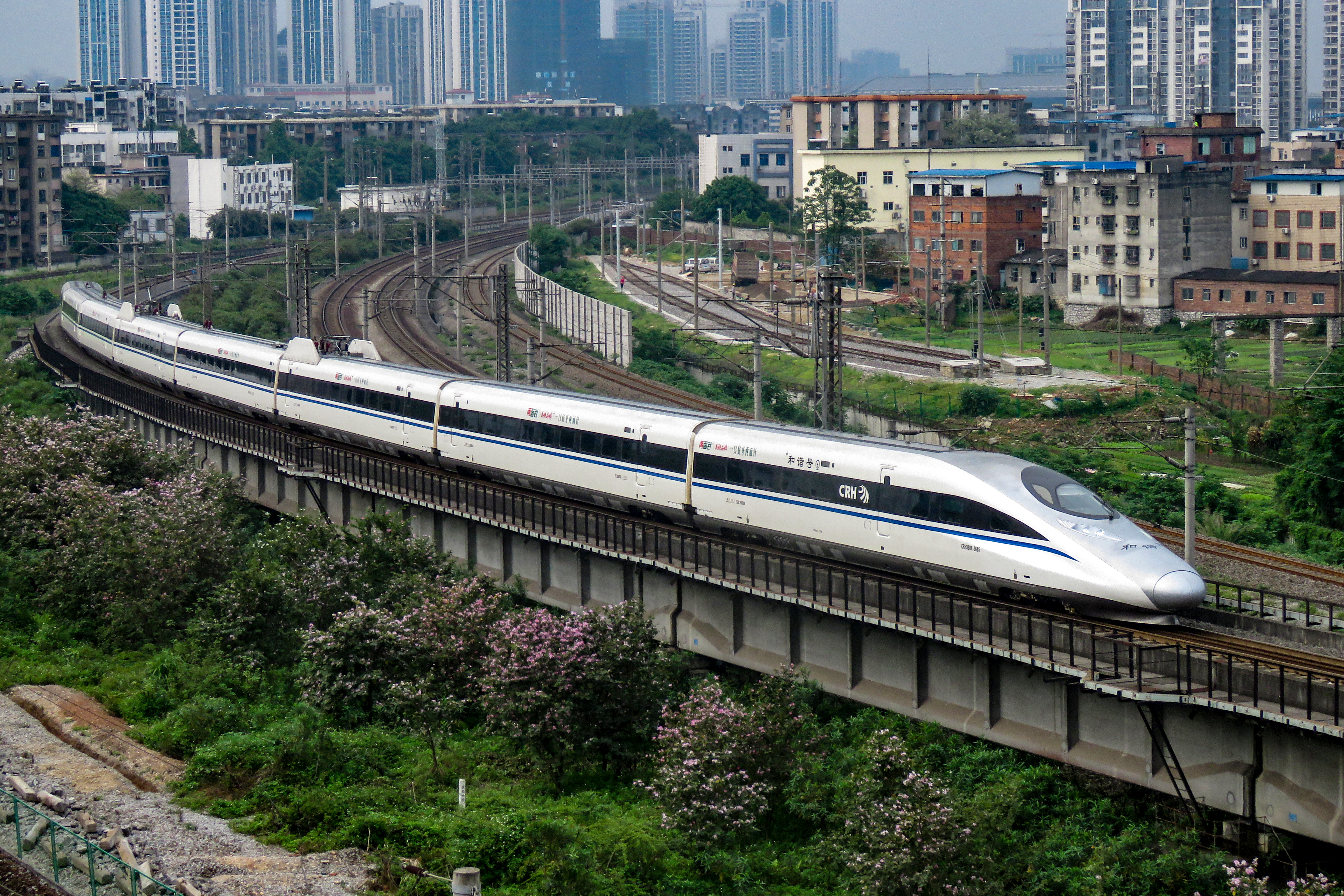 G422 from Nanning East to Beijing West, with Liangmianzhen (a local toothpaste factory in Liuzhou) stickers.